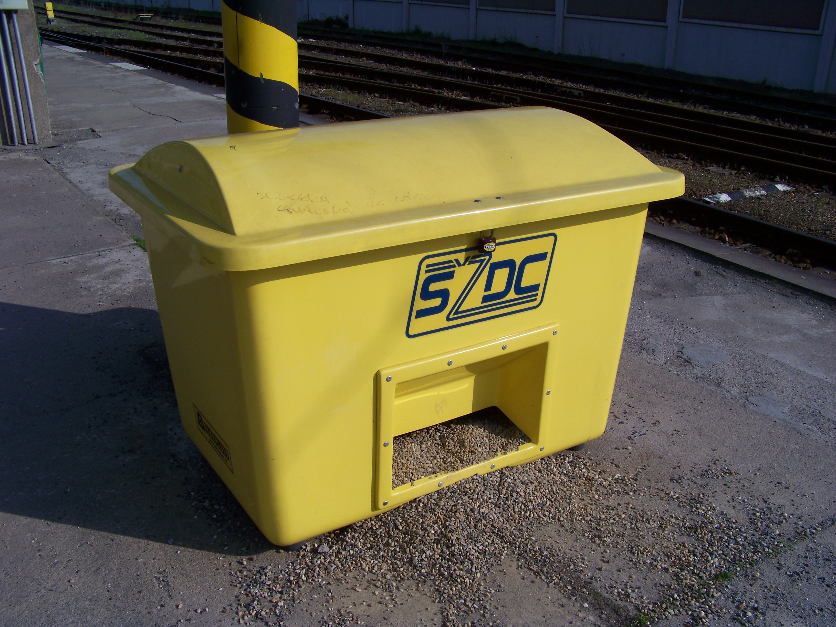 Pečky, Kolín District, Central Bohemian Region, the Czech Republic. The train station, a grit bin.